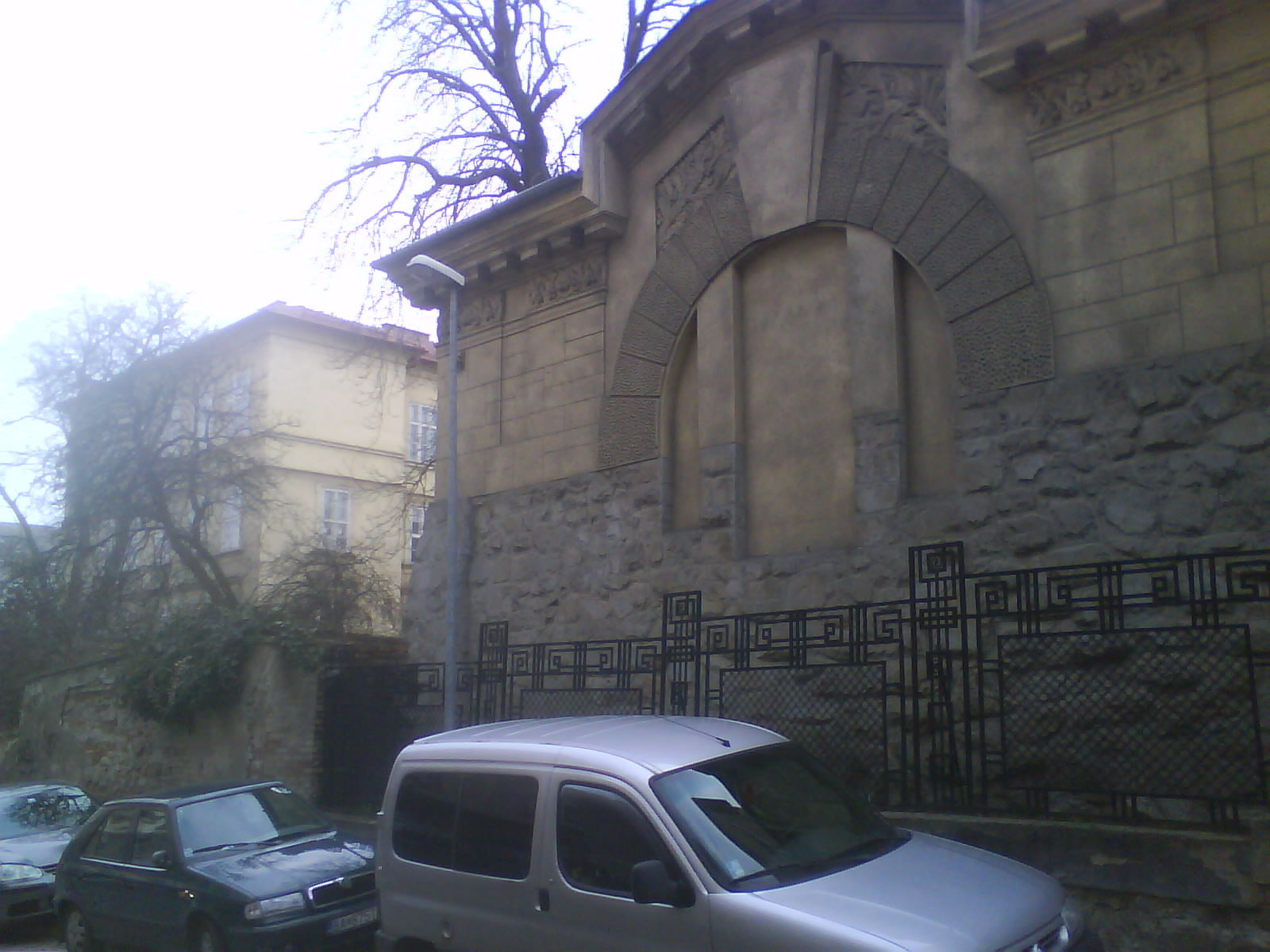 Zochova Street in Bratislava, Slovakia.